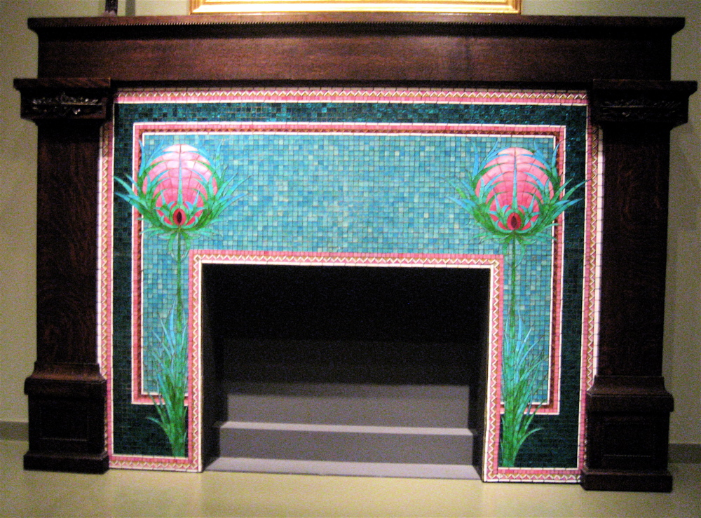 Louis (of Healy and Millet) Millet, George Washington Maher (United States, Illinois (Chicago), 1864 - 1926) Fireplace Surround from the Patrick J. King House, Chicago, Illinois, 1901 Furniture, Oak, glass mosaic, and enamel, 58 x 81 1/2 x 12 1/2 in. (147.32 x 207.01 x 31.75 cm) Gift of Max Palevsky and Jodie Evans in honor of the museum's twenty-fifth anniversary (M.89.151.8a-d) Wikipedia Loves Art at the Los Angeles County Museum of Art This photo of item # M.89.151.8a at the Los Angeles County Museum of Art was contributed under the team name "artifacts" as part of the Wikipedia Loves Art project in February 2009. Los Angeles County Museum of Art The original photograph on Flickr was taken by Beesnest McClain—please add a comment to the original Flickr page whenever a use has been made on Wikipedia or another project. Project galleries on Flickr: this institution, this team